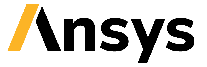 The logo for ANSYS, Inc.